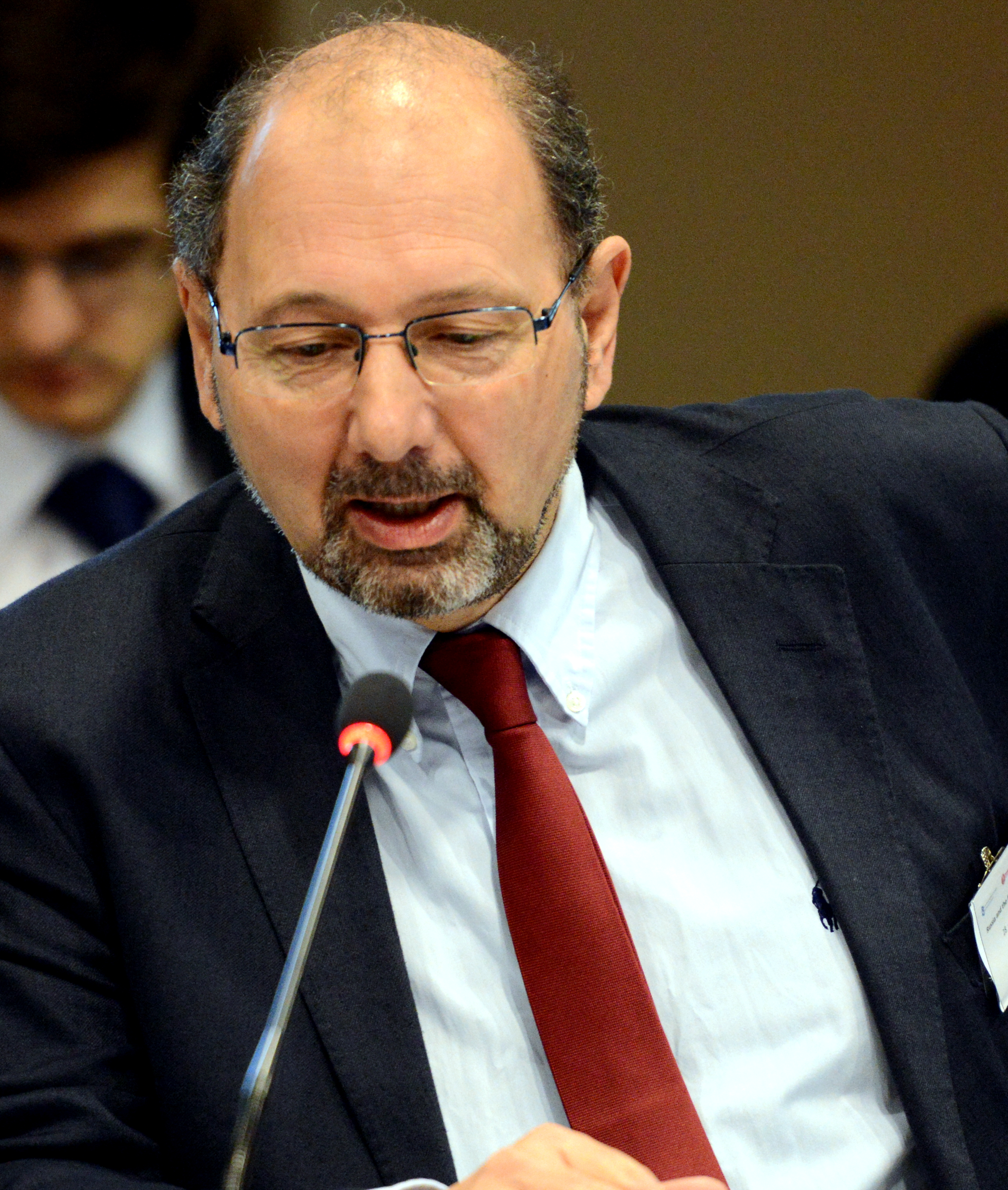 The Luxembourg Institute for European and International Studies, together with the Russkiy Mir Foundation, the Russian Centre of Science and Culture in Luxembourg and the Alexander Gorchakov Public Diplomacy Fund organized the conference Russia and the EU: the question of trust, Luxembourg, 28 - 29 November 2014. Richard Sakwa, Professor of Russian and European Politics, Department of Politics and International Relations, University of Kent, UK.